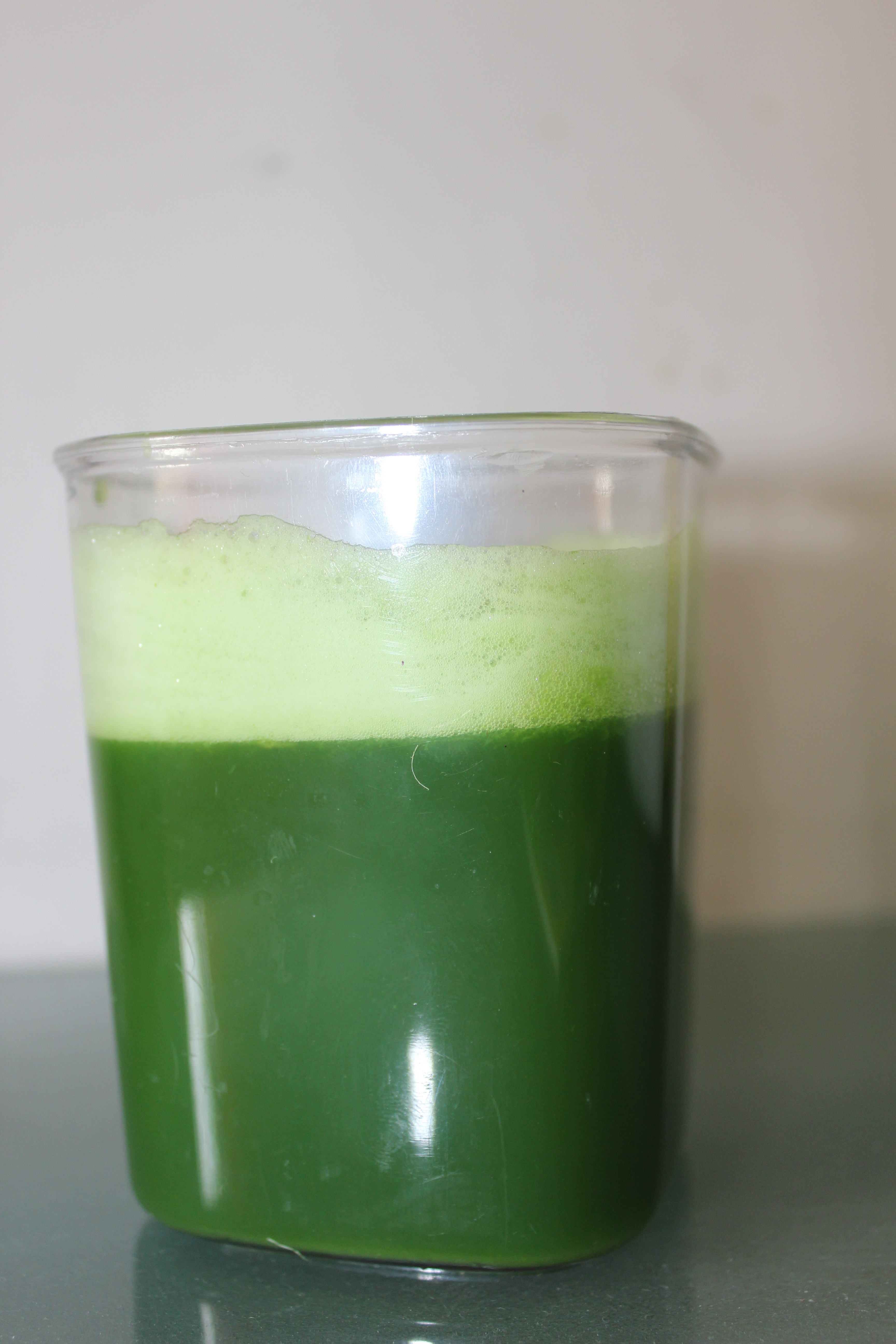 Wheat Grass Juice